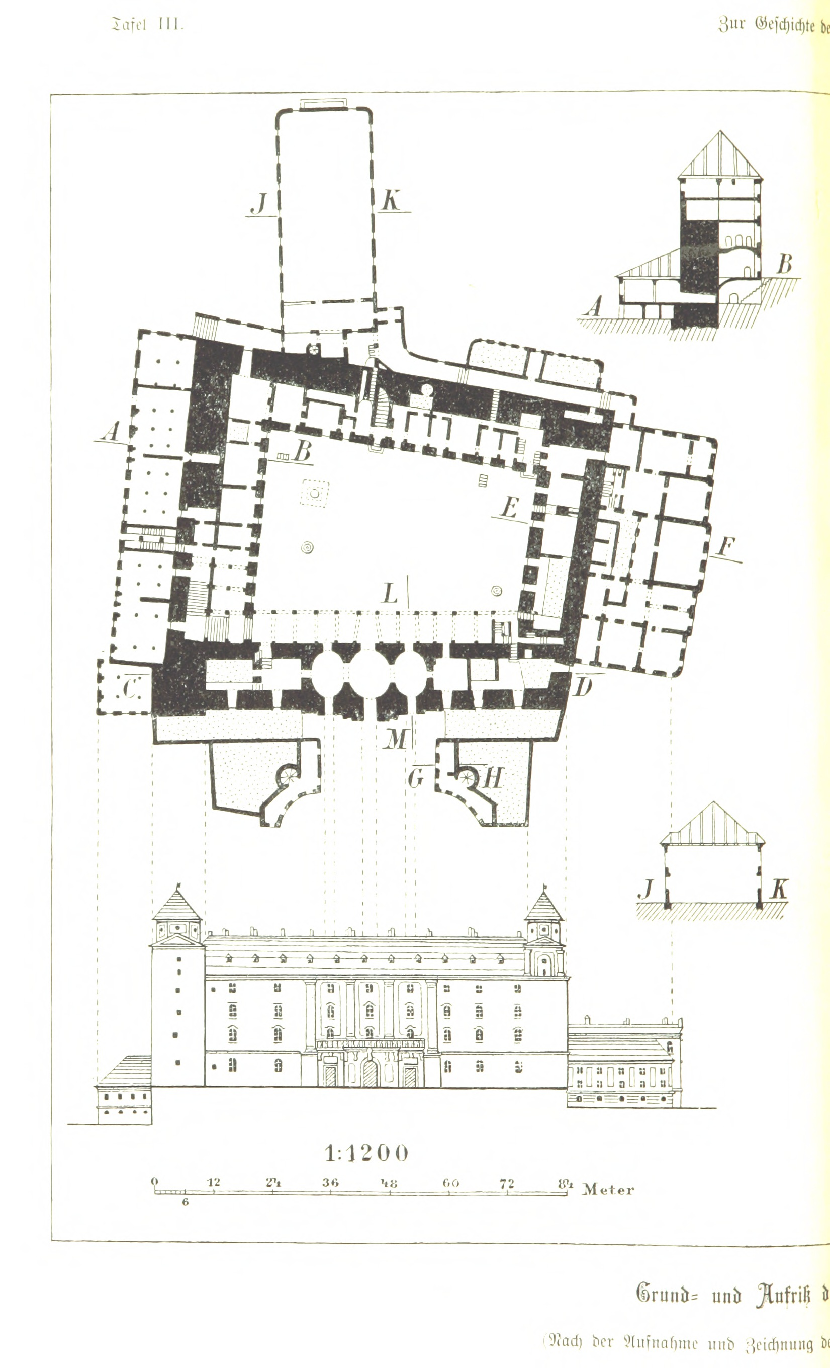 View this map on the BL Georeferencer service. Image taken from: Title: "Geschichte der Stadt Pressburg ... Herausgegeben durch die Pressburger Erste Sparcassa. Deutsche Ausgabe ... Mit ... Illustrationen, etc" Author: ORTVAY, Tivadar. Shelfmark: "British Library HMNTS 10215.i.4." Volume: 06 Page: 170 Place of Publishing: Pressburg Date of Publishing: 1892 Issuance: monographic Identifier: 002722419 Explore: Find this item in the British Library catalogue, 'Explore'. Download the PDF for this book (volume: 06) Image found on book scan 170 (NB not necessarily a page number) Download the OCR-derived text for this volume: (plain text) or (json) Click here to see all the illustrations in this book and click here to browse other illustrations published in books in the same year. Order a higher quality version from here.